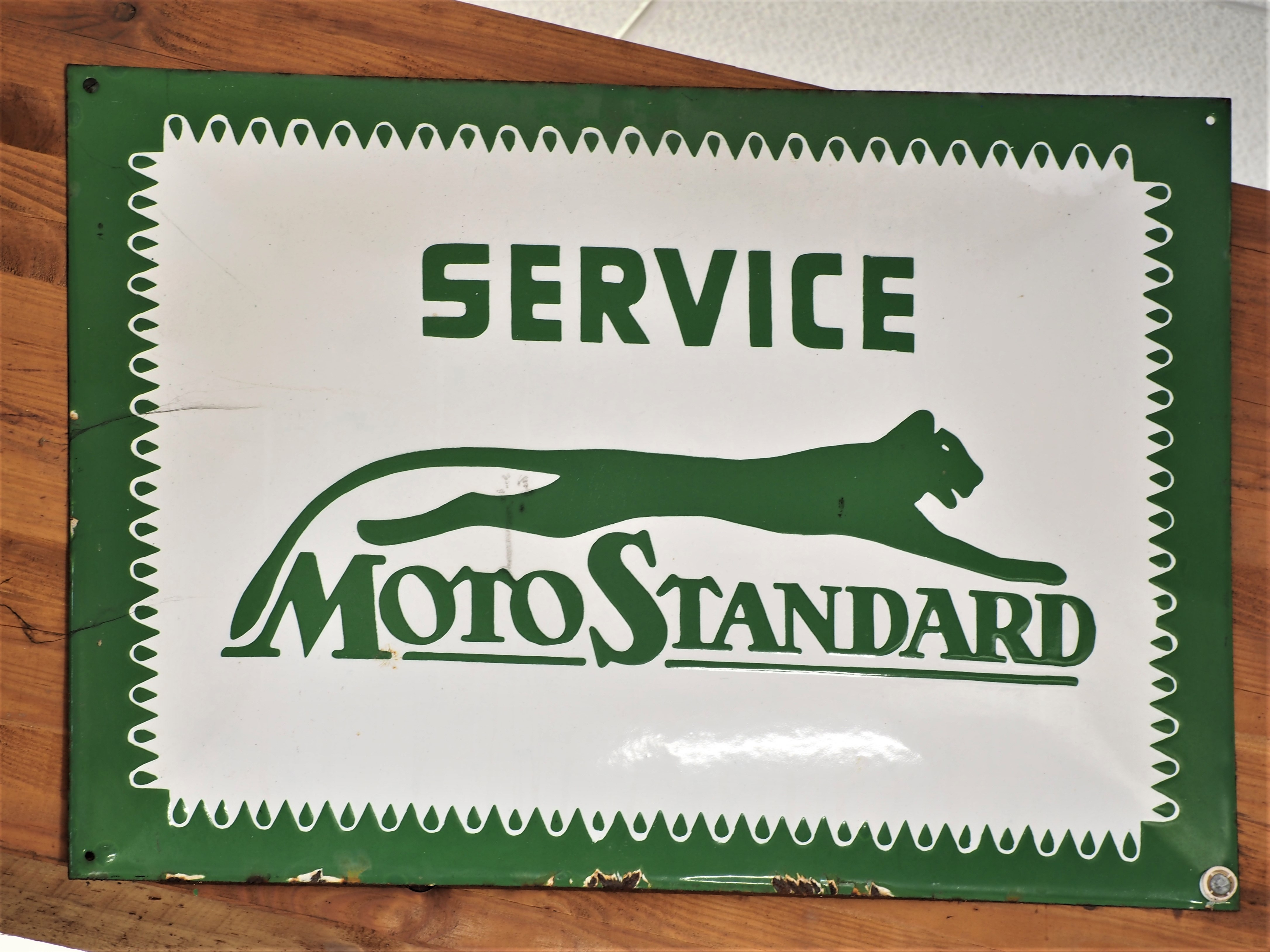 Photo's taken in the Fahrzeugmuseum-Marxzell, Germany.